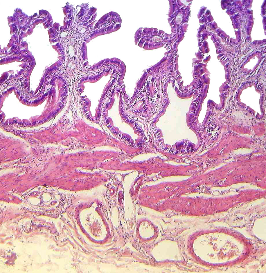 gallbladder, haemalum-eosin stain